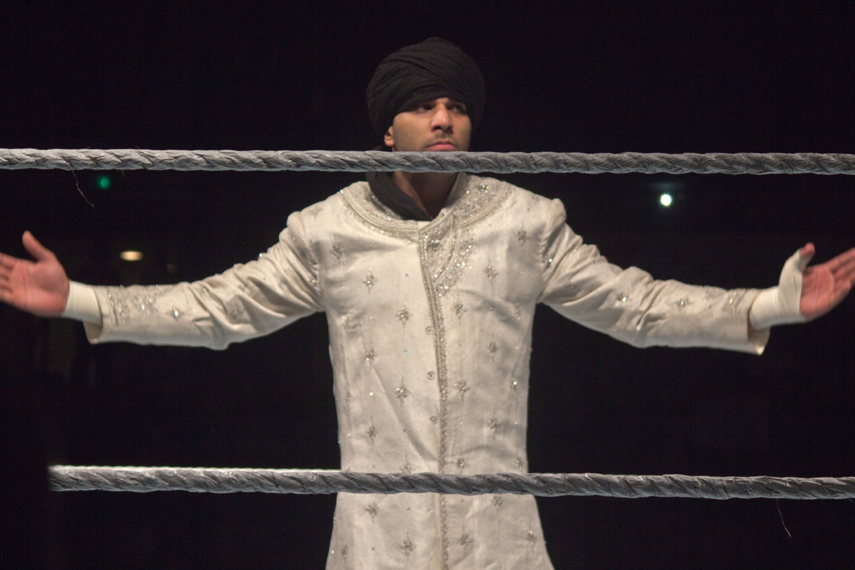 Jinder Mahal in his pre-match attire of a turban and a white robe. Photo taken at a WWE SmackDown live event in Montgomery, Alabama on January 7, 2012.